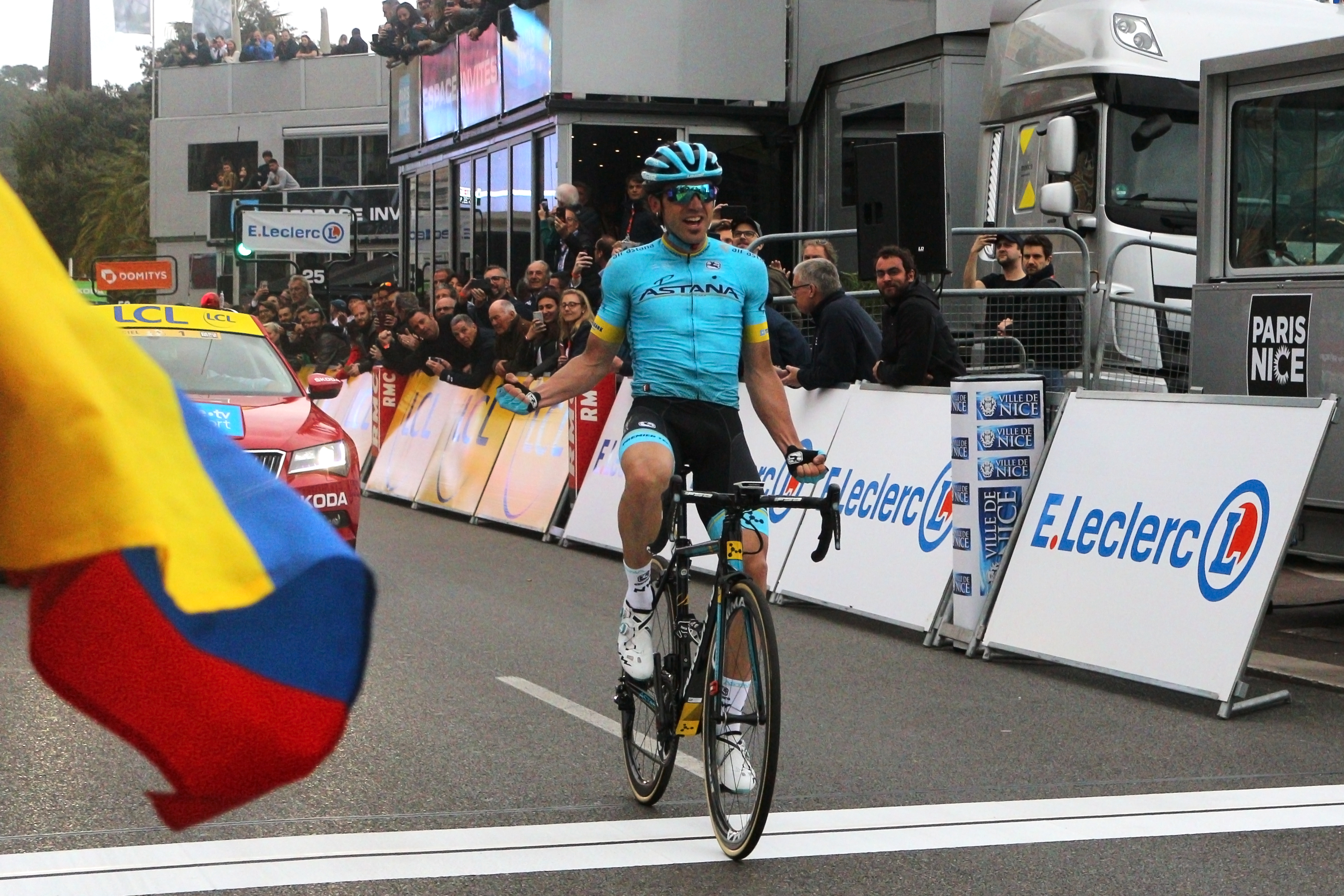 Ion Izagirre winning the last stage of the 2019 Paris-Nice